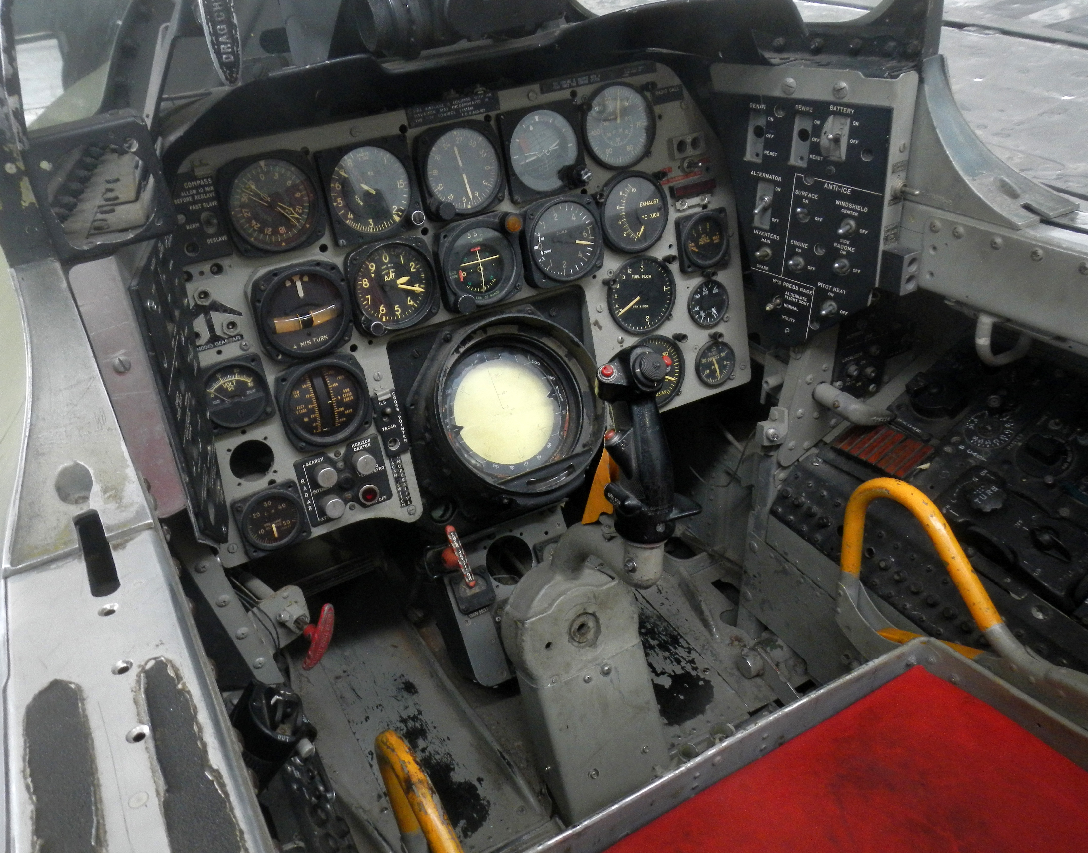 Cockpit of F-86D; MAPS Air Museum, North Canton.